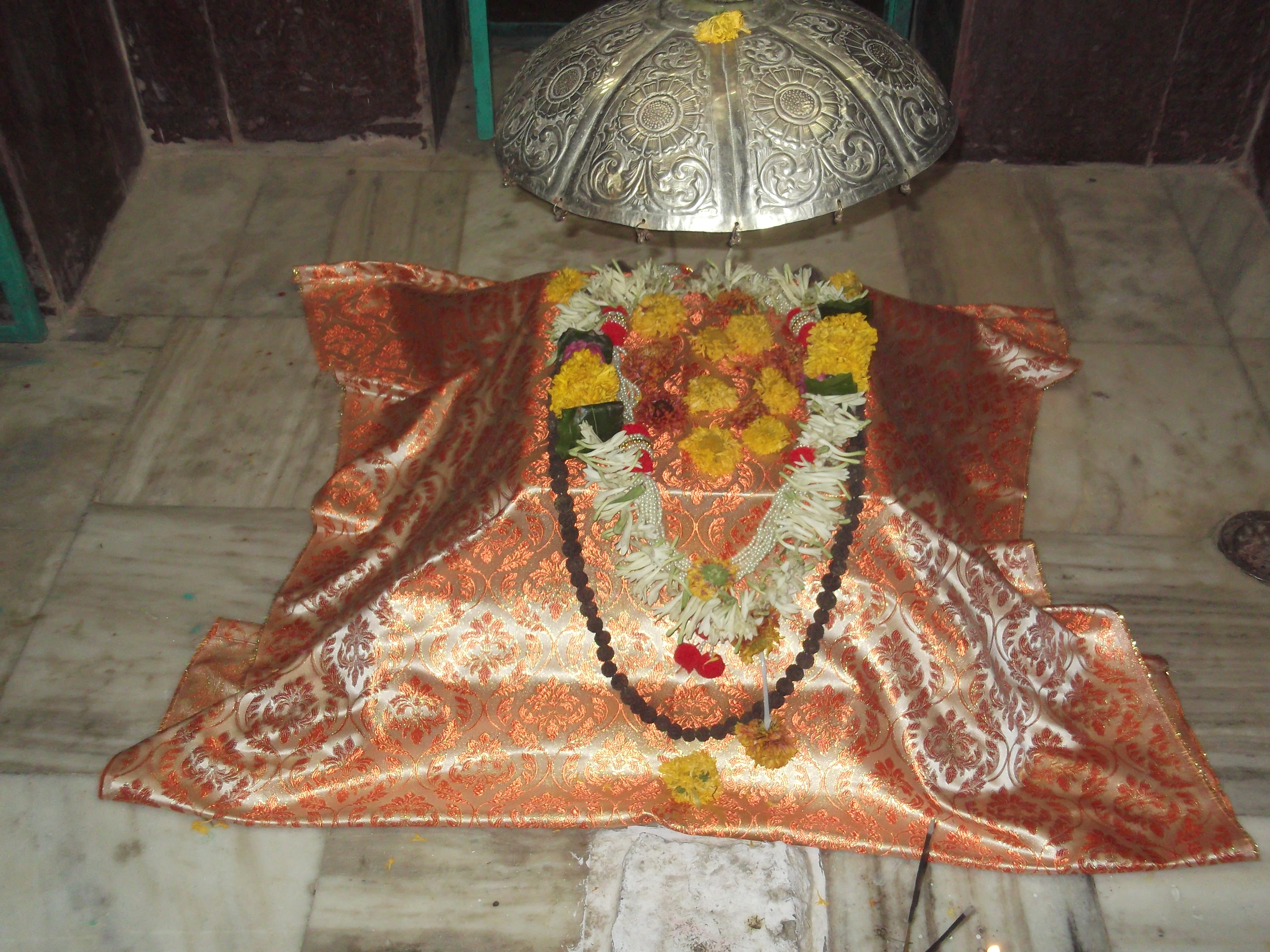 श्री सखाराम महाराज यांचा समाधीकाळ सन १८४०(?)आहे. त्यांची समाधी हैदराबाद येथे आहे.